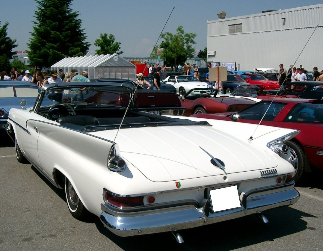 1961 Chrysler Newport Convertible. (The 1961 Chrysler New Yorker Convertible had different side trim, as can be seen in the 1961 Chrysler brochure.)